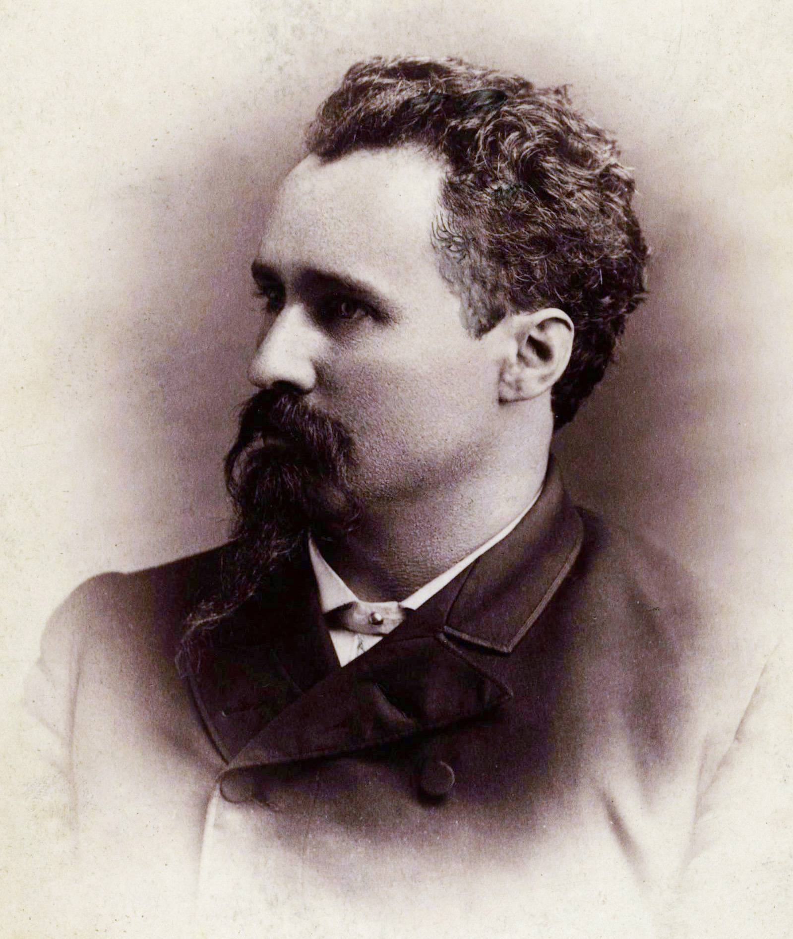 Oscar Neebe, american anarchist and defendant in the haymarket bombing trial.